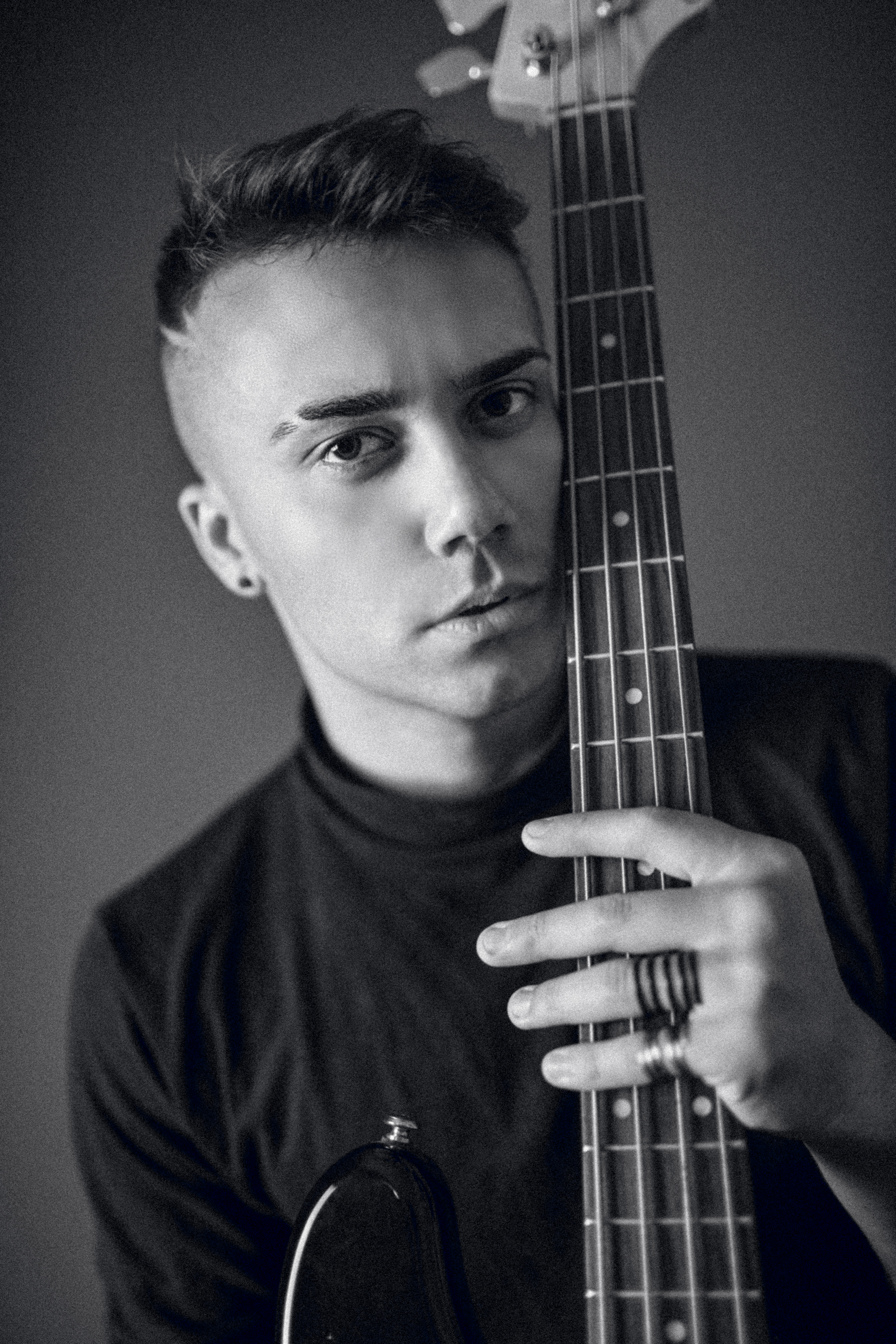 Nikola Iliev Nickarth